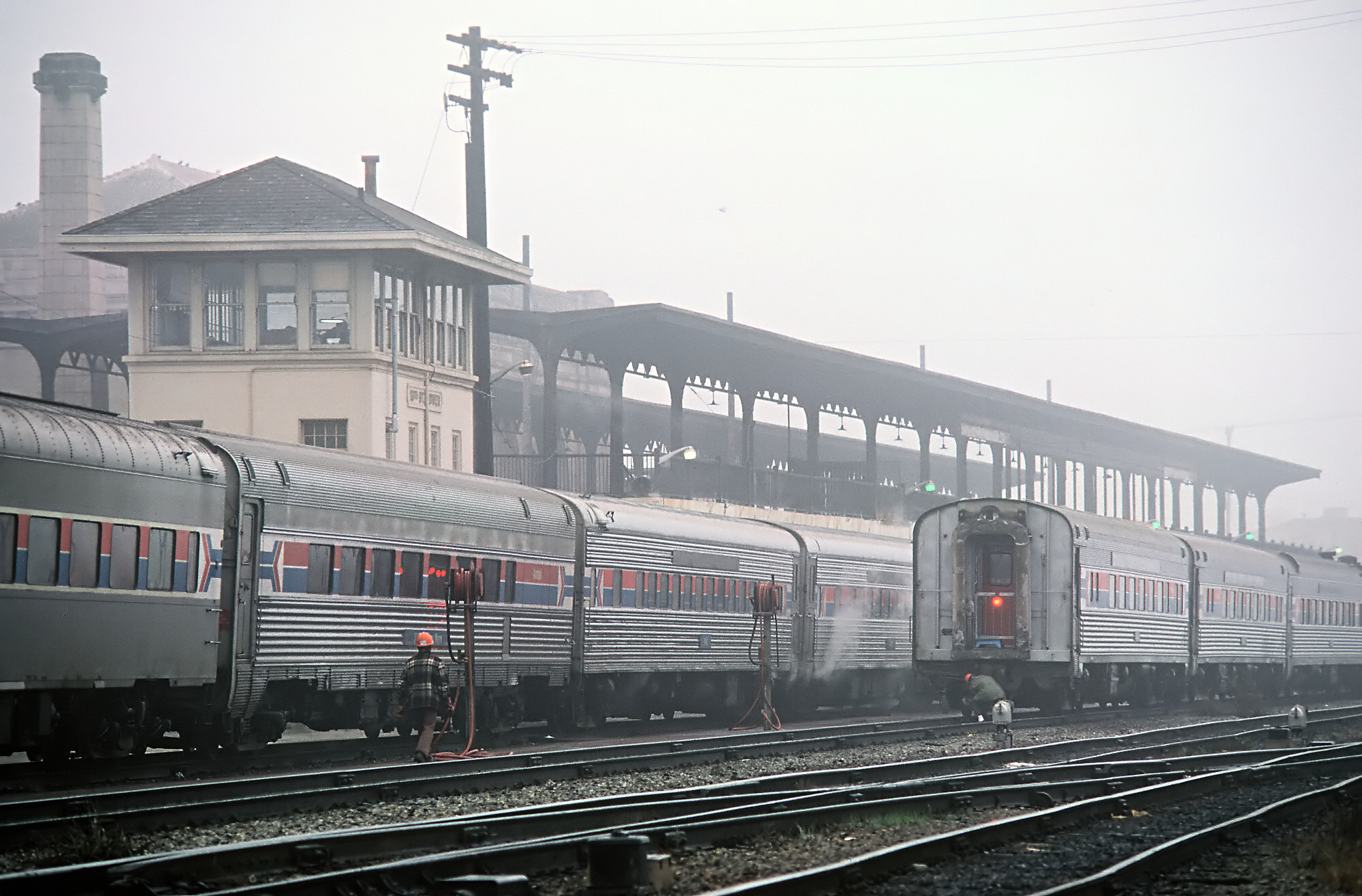 Possibly two sections of the southbound Coast Starlight at Christmas time. A Roger Puta Photo